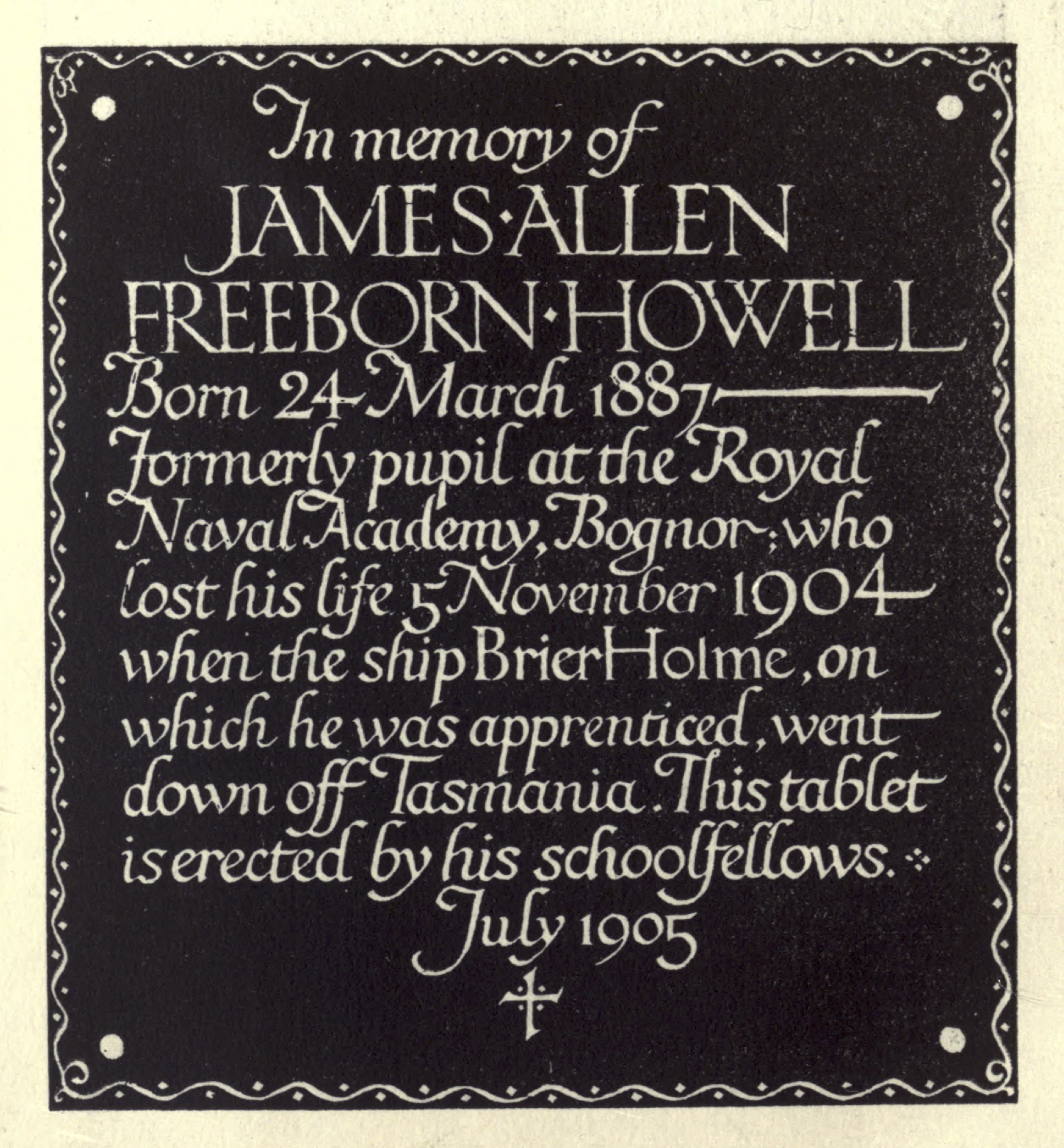 A rubbing of a memorial bronze created by Eric and Max Gill in 1905 for St Wilfrid's Church, Bognor. The source book has many other images of notable work by the Gill brothers together or alone and is well worth reading.